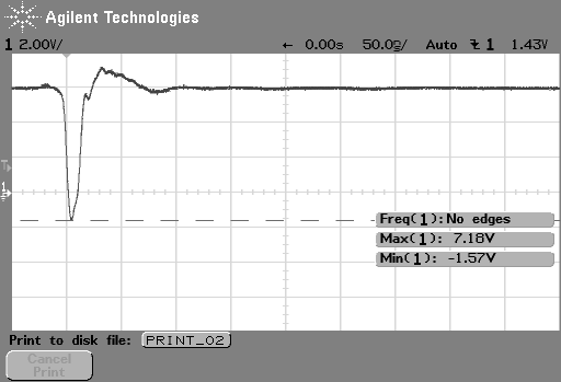 Digital hazard.